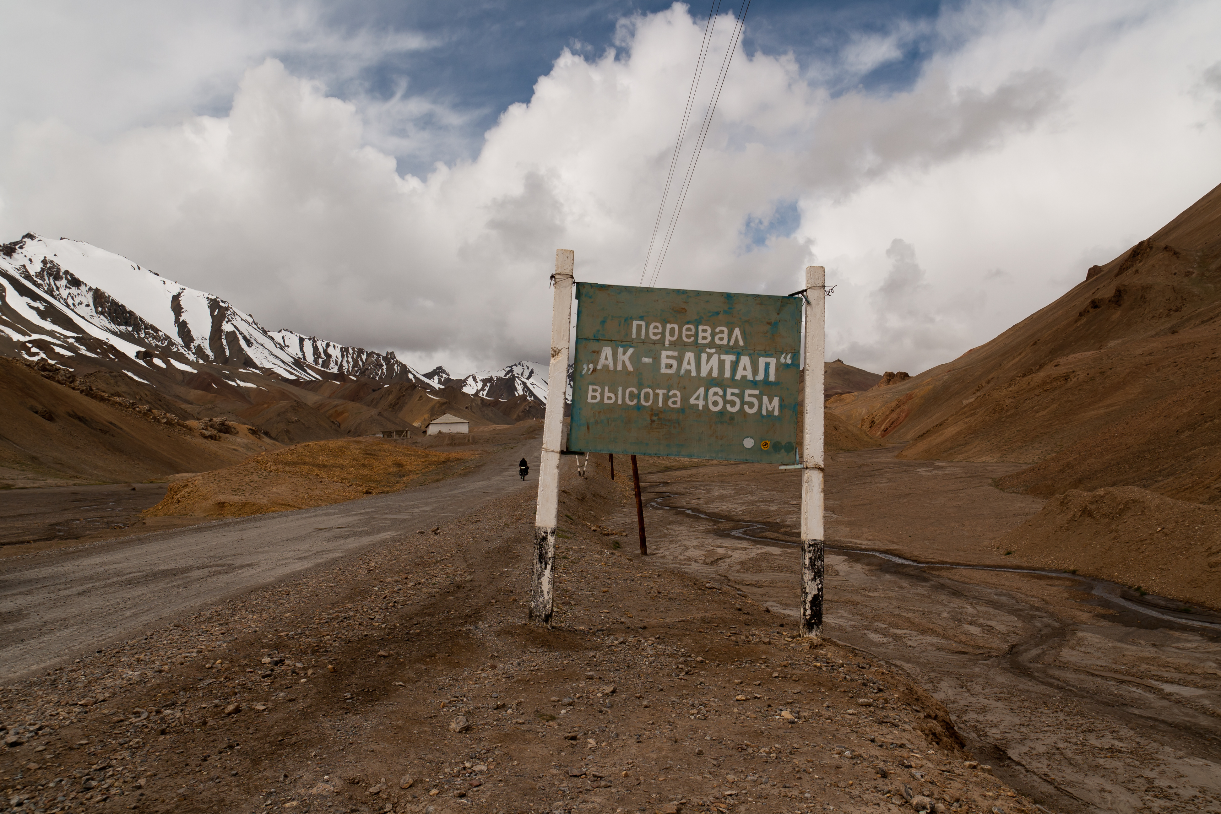 crossing the Ak-Baital pass (4,655 m/15,270 ft) in Tajikistan along the Pamir Highway